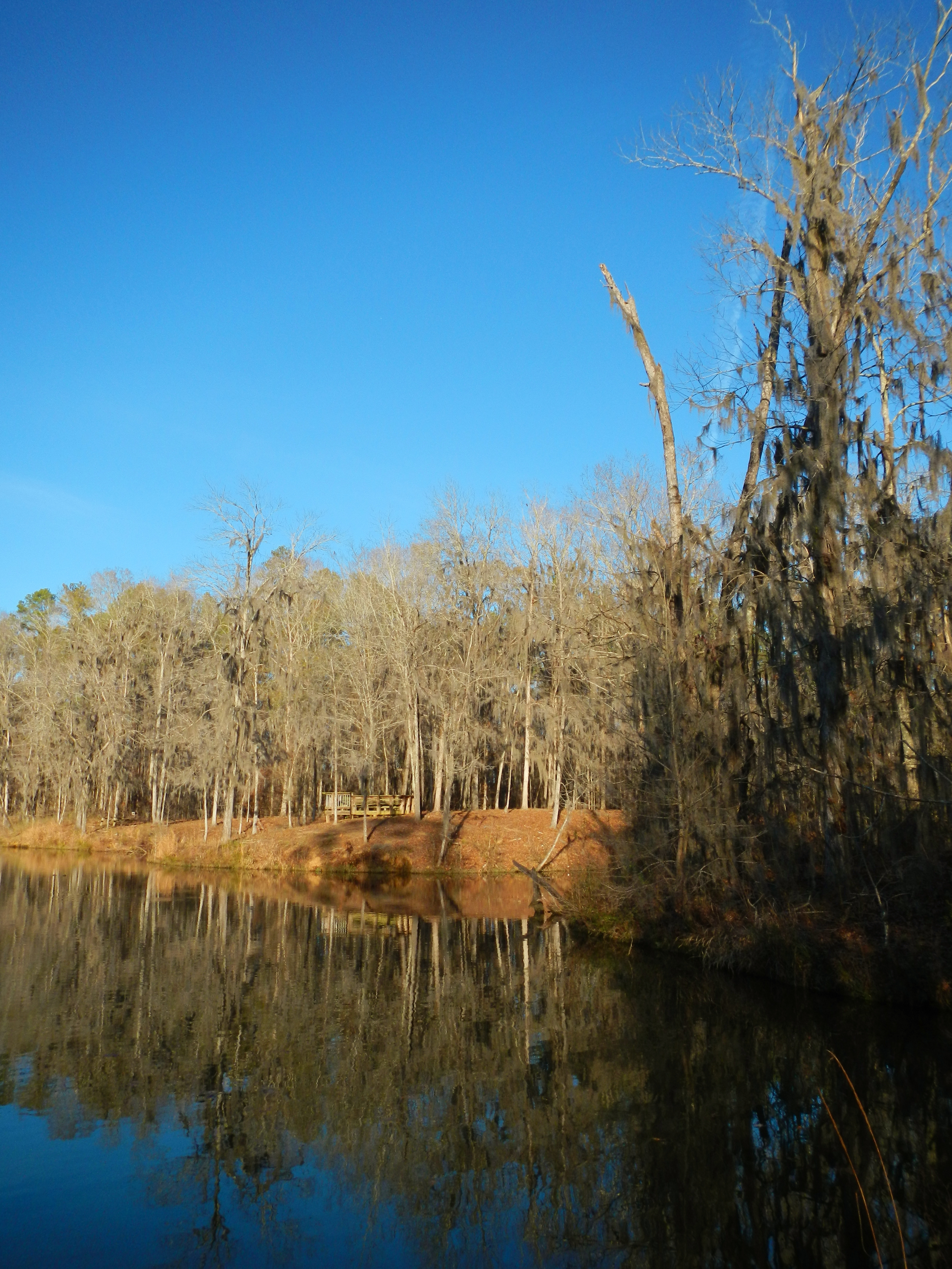 This is a photo of the Holy Ground Battlefield Park in White Hall, Alabama.